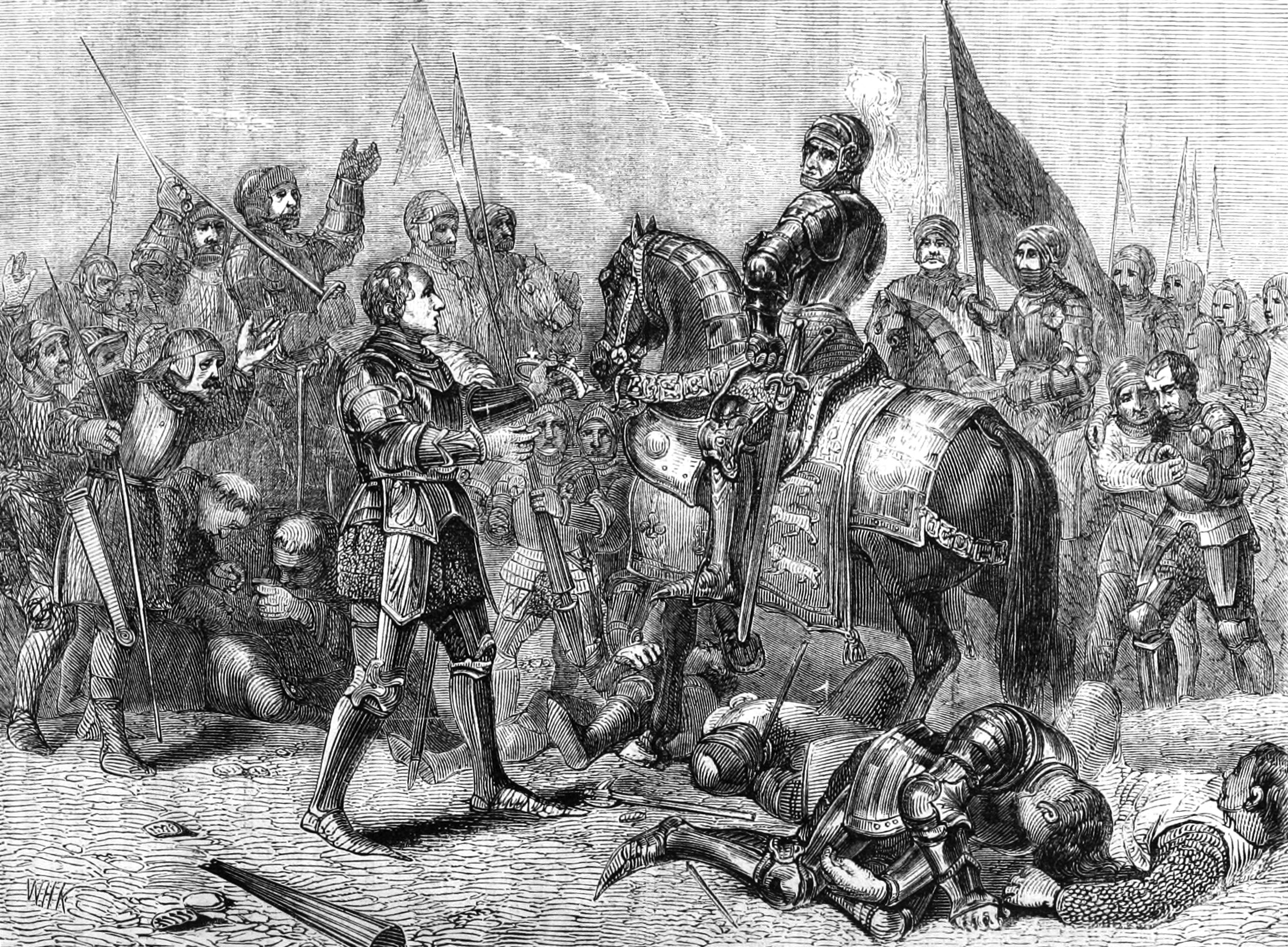 Battle of Bosworth Field. Lord Stanley Bringing the Crown of Richard to Richmond.